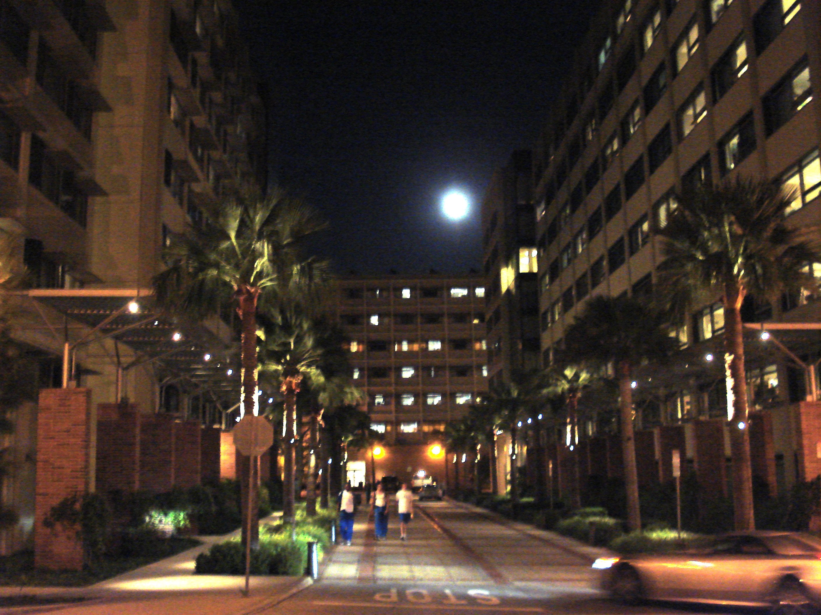 Rieber Plaza, a housing area of UCLA